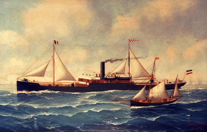 Steamer "Lavinia", built in 1902